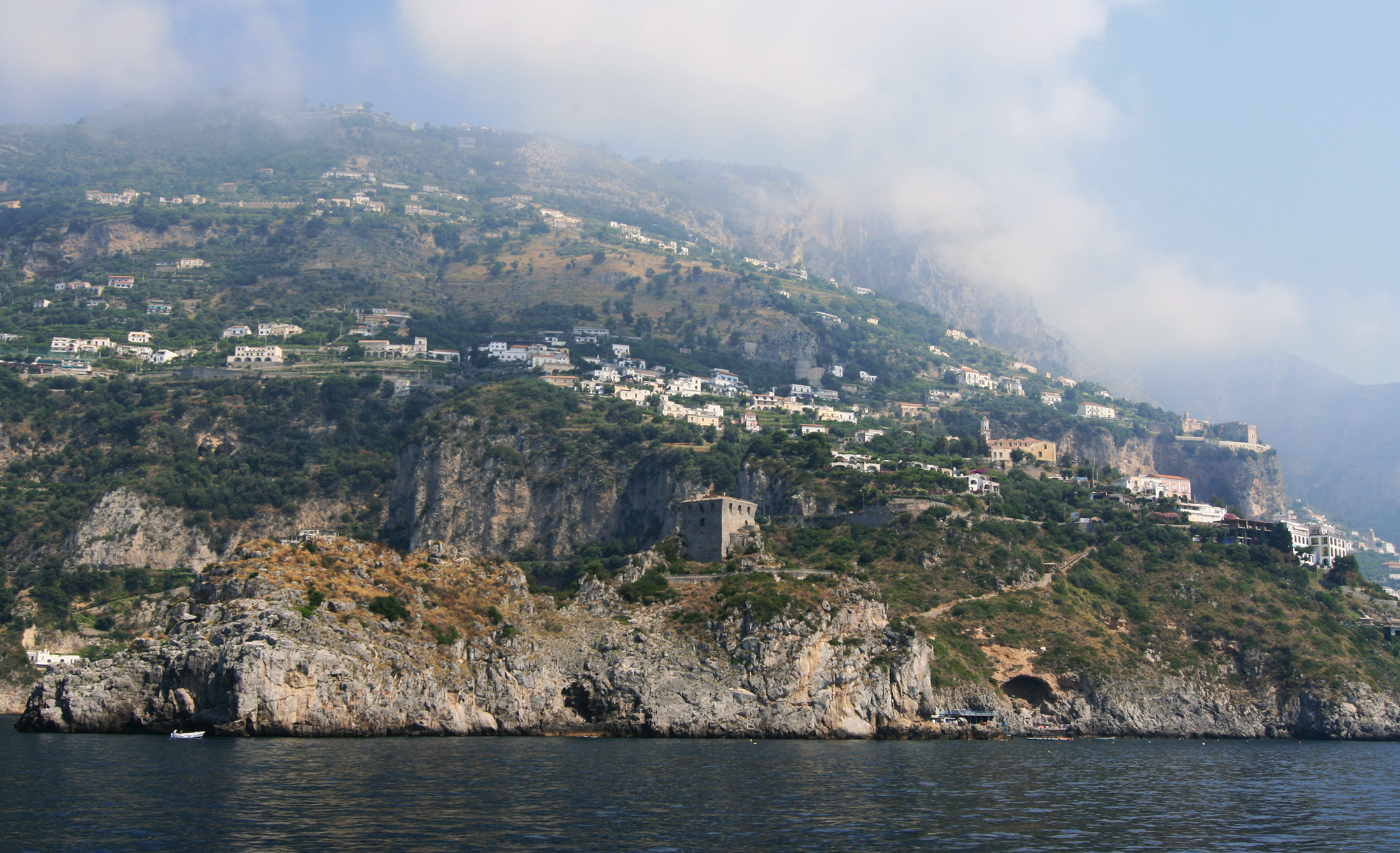 Conca dei Marini, Italia.